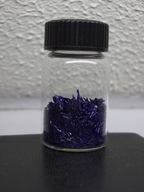 Tetramminecopper(II) sulfate